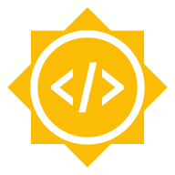 Google Summer of Code program icon